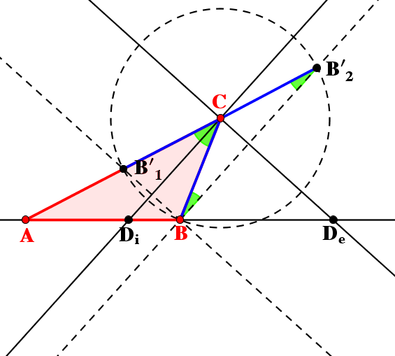 shows the internal and external bisector theorem